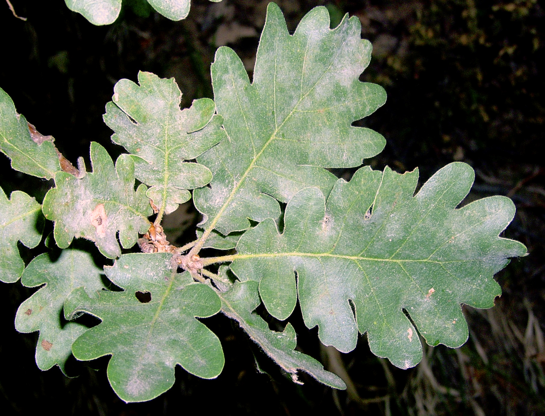 Quercus pubescens. Bielinek, NW Poland.